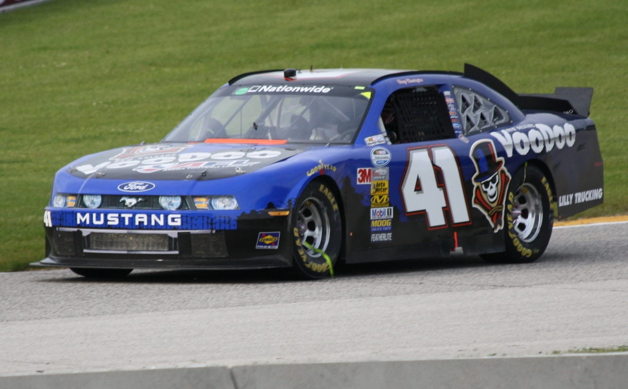 NASCAR driver Doug Harringtonl racing his stock car at Road America at the 2011 Bucyros 200 Nationwide Series race.